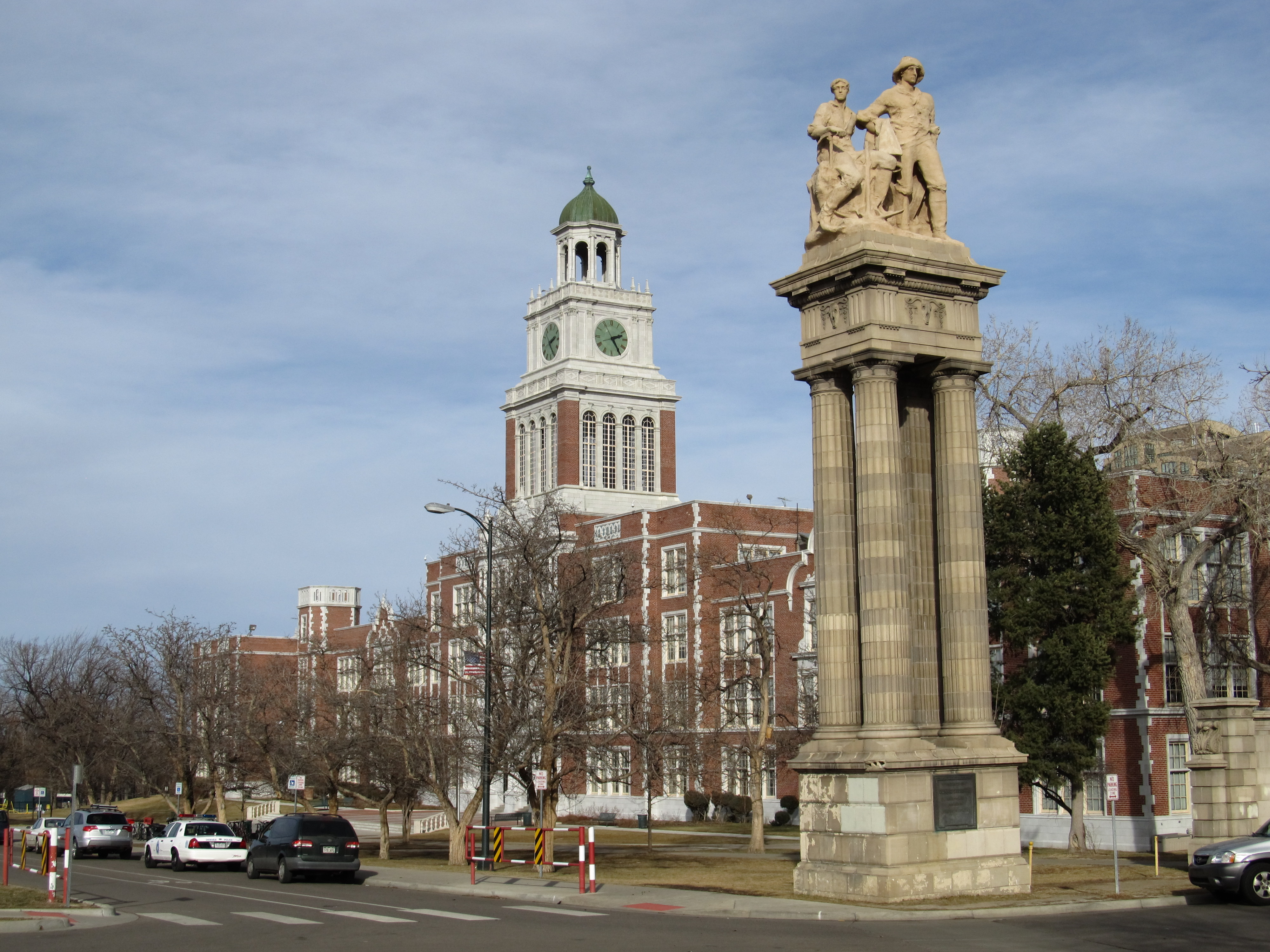 East High School is a public high school located in the City Park neighborhood on the east side of Denver, Colorado. It is part of the Denver Public Schools System. In early 1991, the East High building was declared an official Denver Historic Landmark by the Denver Landmark Commission and the Denver City Council.